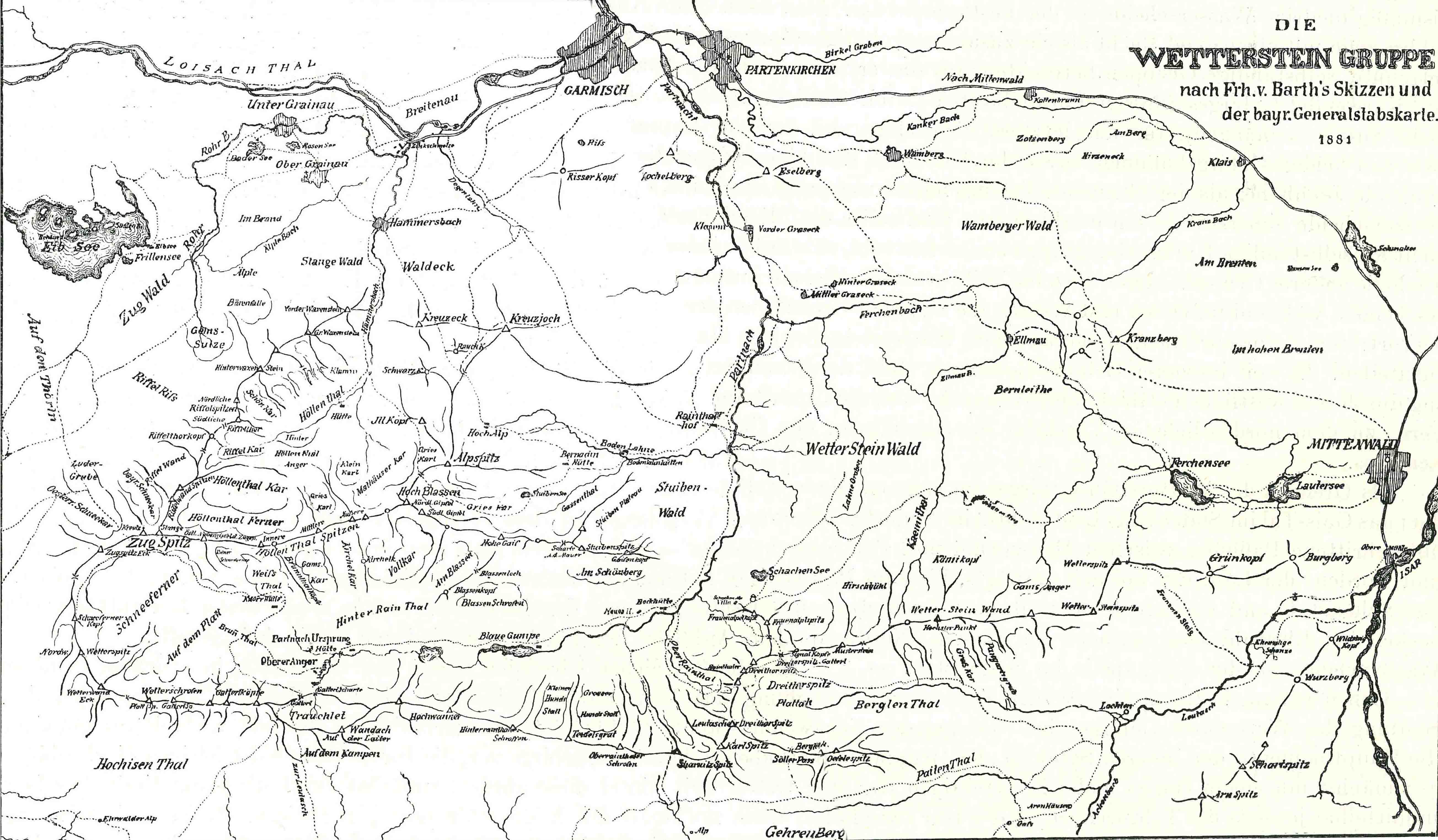 Wetterstein map by Weinhöppel according to drawings by Hermann von Barth (1845-1876)